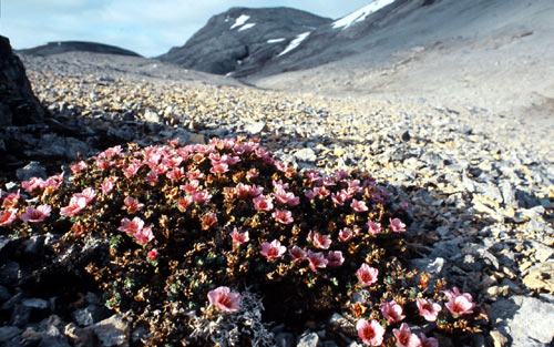 Purple Saxifrage, Saxifraga oppositifolia, at northern part of Ymerdalen, southern Bjoernoeya, July 2002, ba Michael Haferkamp Category:Bjørnøya